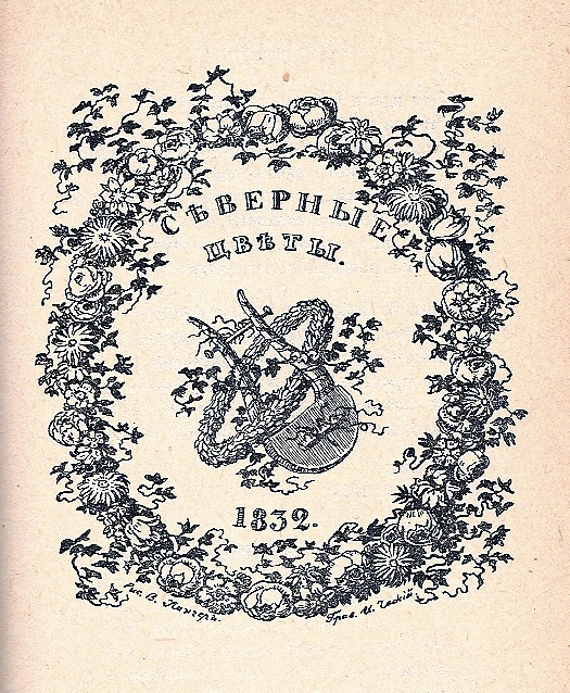 The title page of the "Severnie tsveti" (russian "Северные цветы") literary miscellany of Anton Delvig. Published by Alexander Pushkin, 1832.